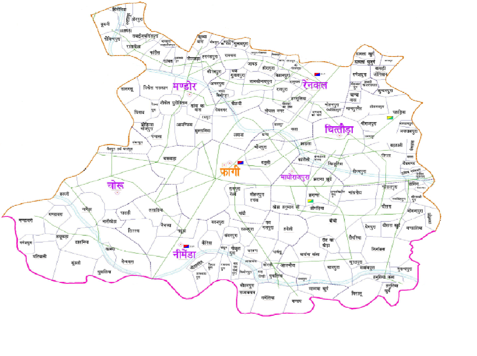 This is the map of Phagi Tehsil in Jaipur district. Original map was taken from the which is the complete map of Jaipur district. Cut the portion and editted to show only the Phagi Tehsil.